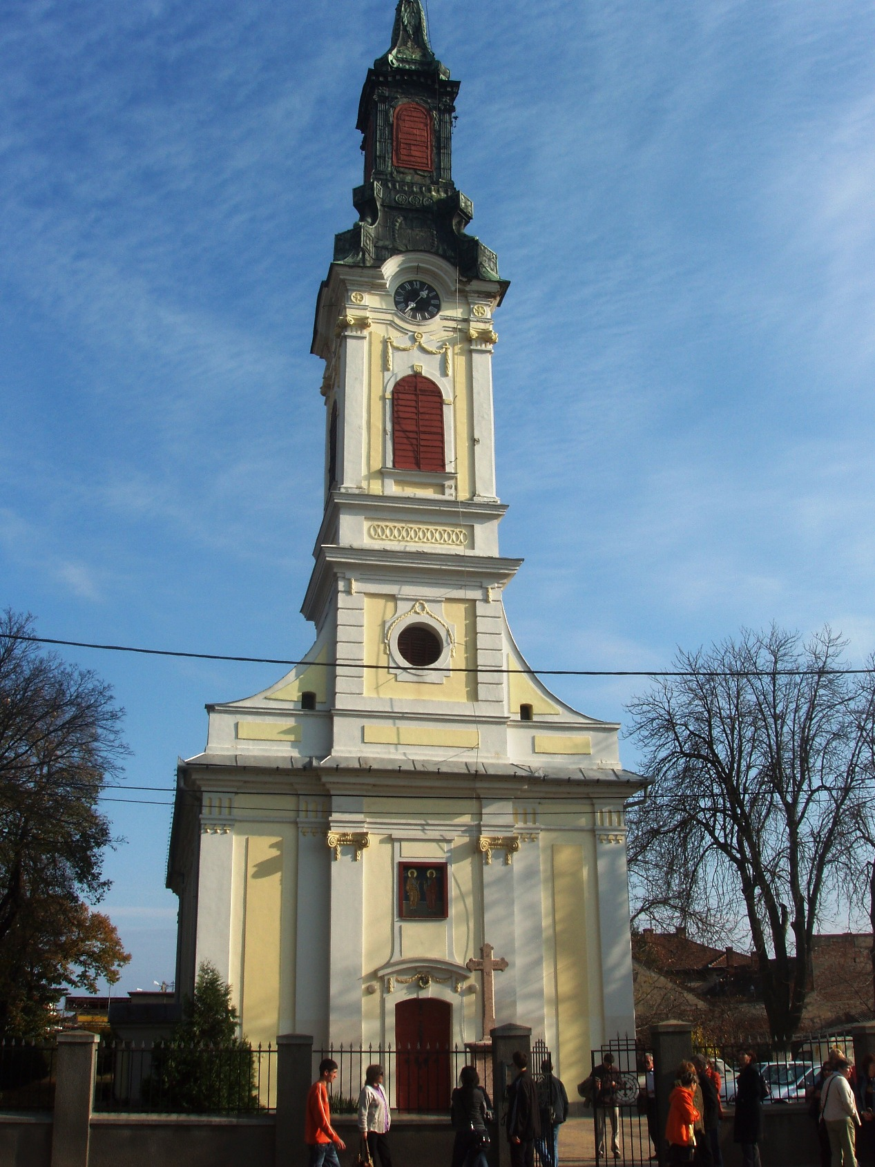 Arad, Romania - Serbian Otrhodox Church.JPG